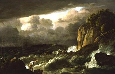 "Schiffbruch"